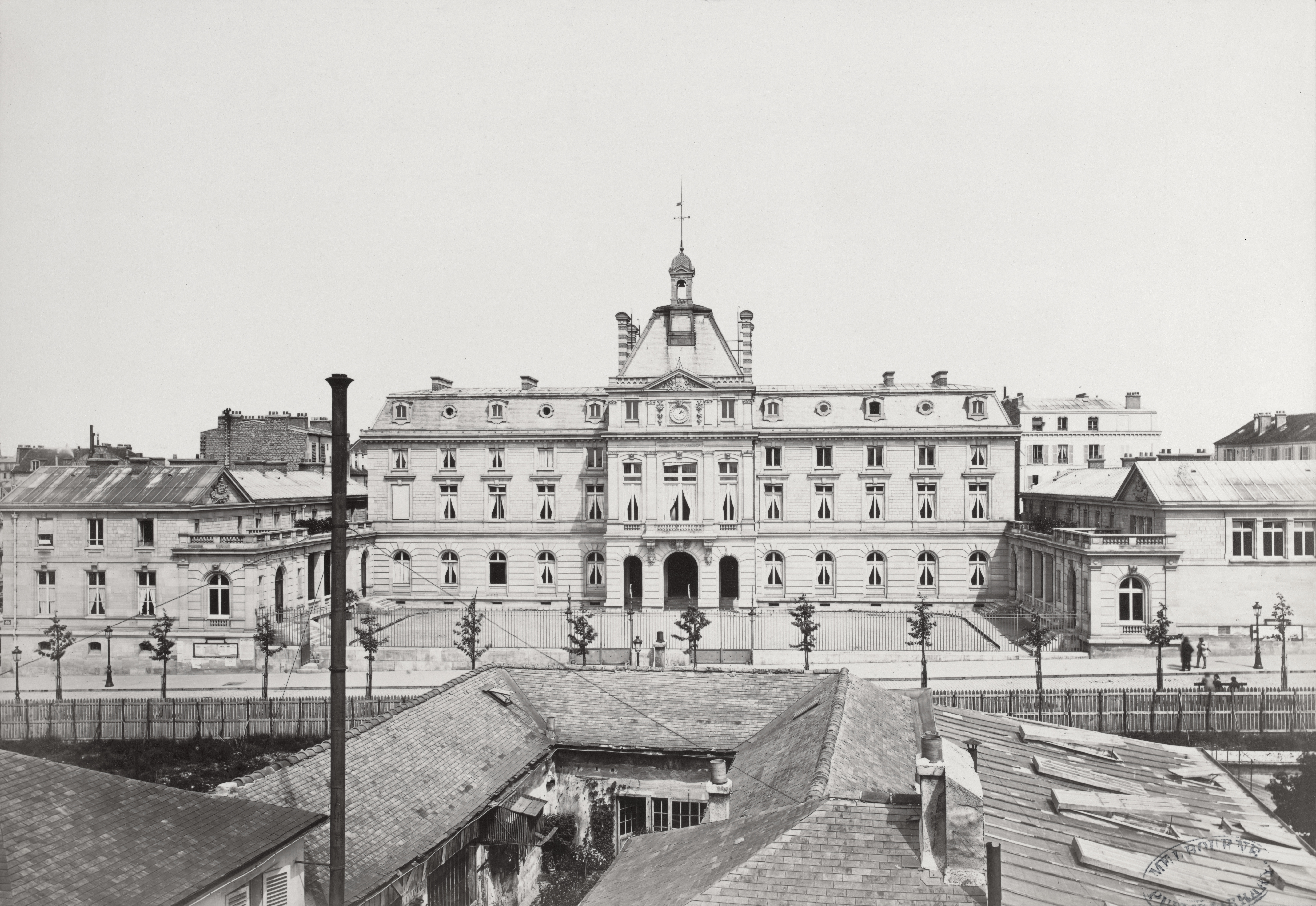 Elevated view across roof tops towards three storey town hall with iron railing fence in front.